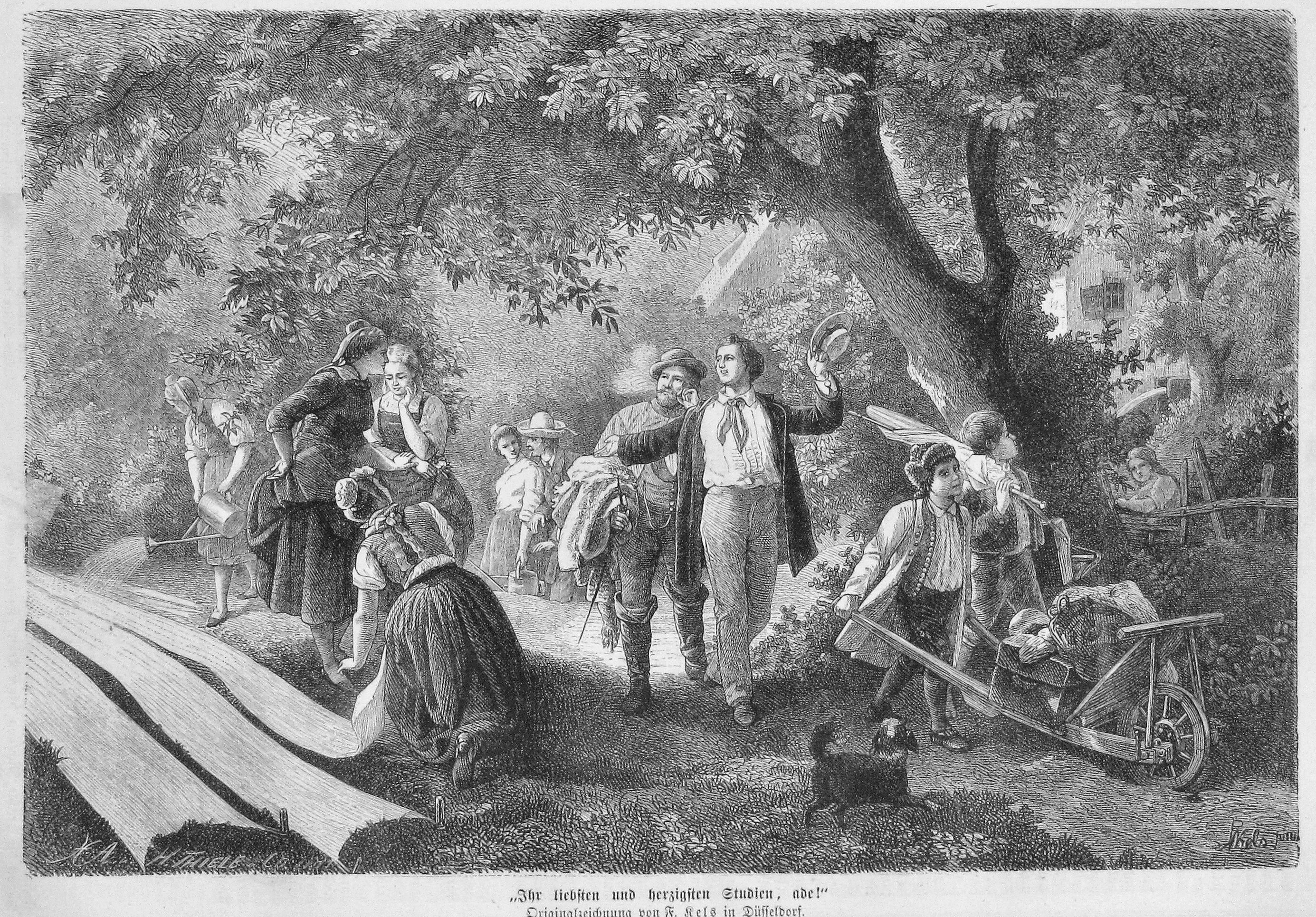 caption: "„Ihr liebsten und herzigsten Studien, ade!“ Originalzeichnung von F. Kels in Düsseldorf."